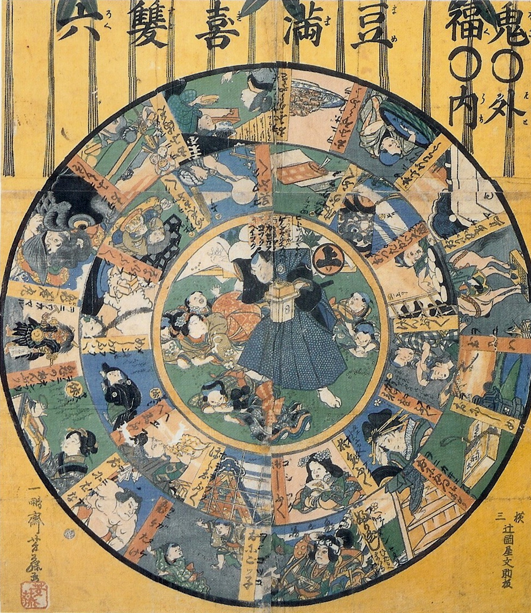 Sugoroku luck in - devil out